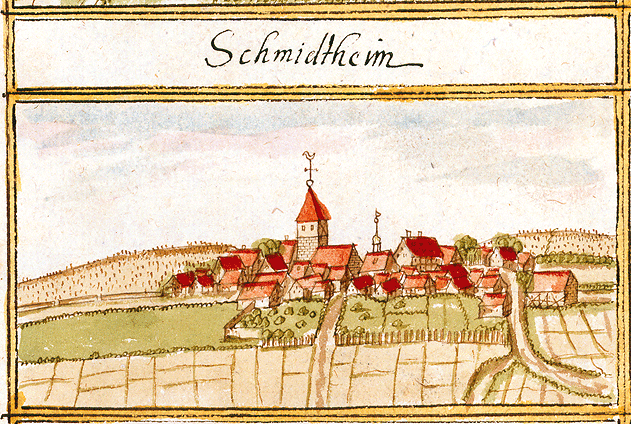 View of Schmiden, Fellbach, from the forest register books created by Andreas Kieser